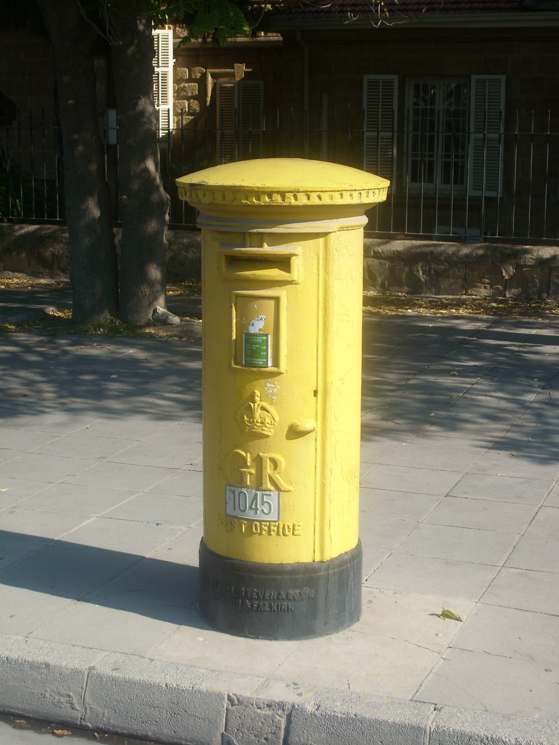 George V post box in Nicosia, Cyprus. McDowall, Steven & Co made the box at the Laurieston Iron Works in Falkirk, Scotland